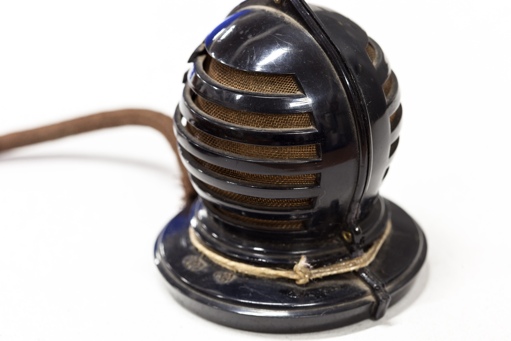 Table microphone for recording of talks and conferences. Production year unknown, probably 1930. Museum für Kommunikation, Frankfurt, Germany. Photo by Maximilian Schönherr with help from Lioba Nägele.